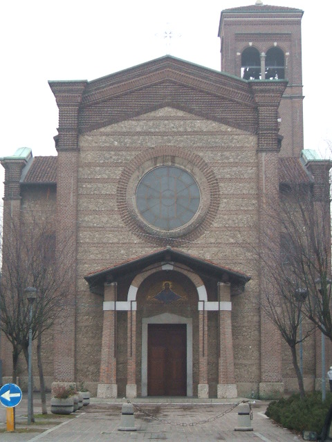 Chiesa Sant'Antonio, Maria Zaccaria